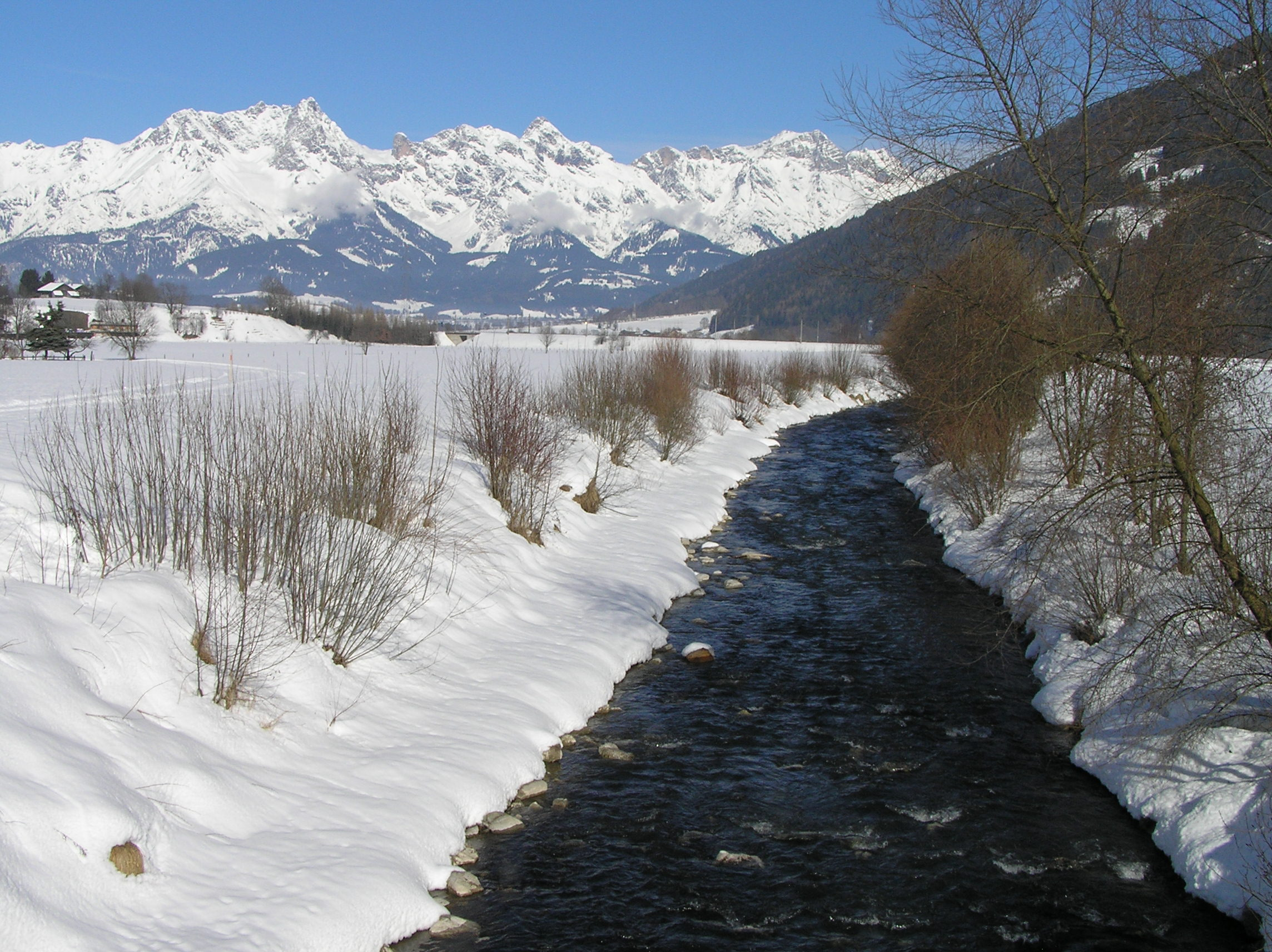 River Saalach passing Maishofen. Heading north towards Steinernes Meer with Perseilhorn, Breithorn and Schönfeldspitze.